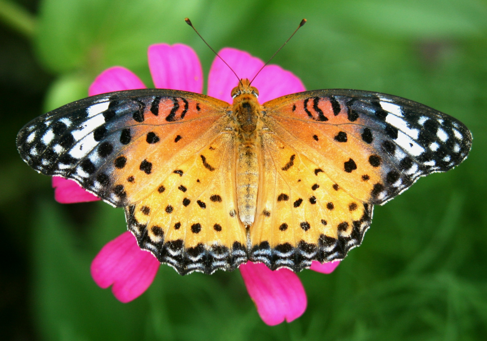 Argynnis hyperbius - female, and Zinnia elegans